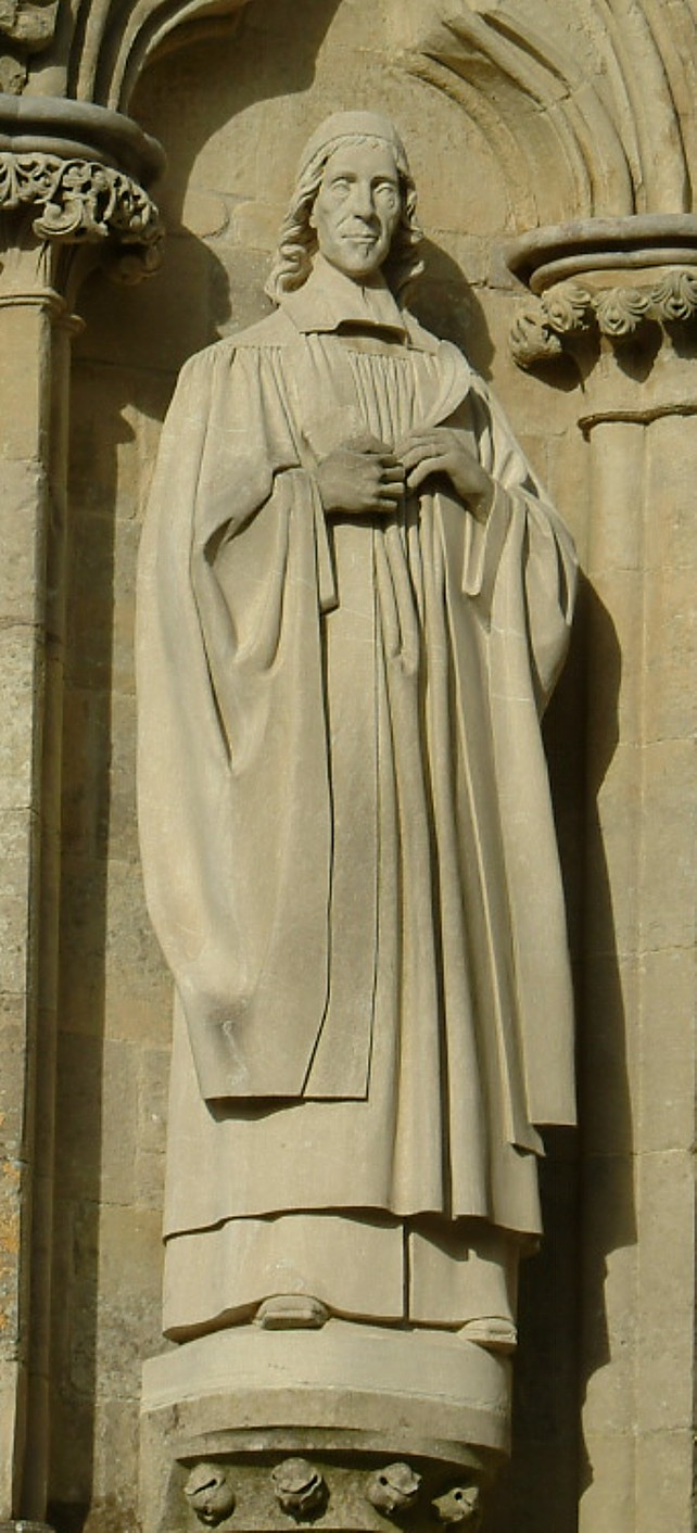 A statue of George Herbert on the West Front of Salisbury Cathedral, UK.